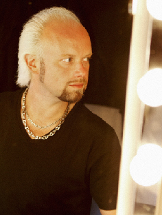 A portrait of Svante Karlsson, Swedish singer-songwriter and entertainer